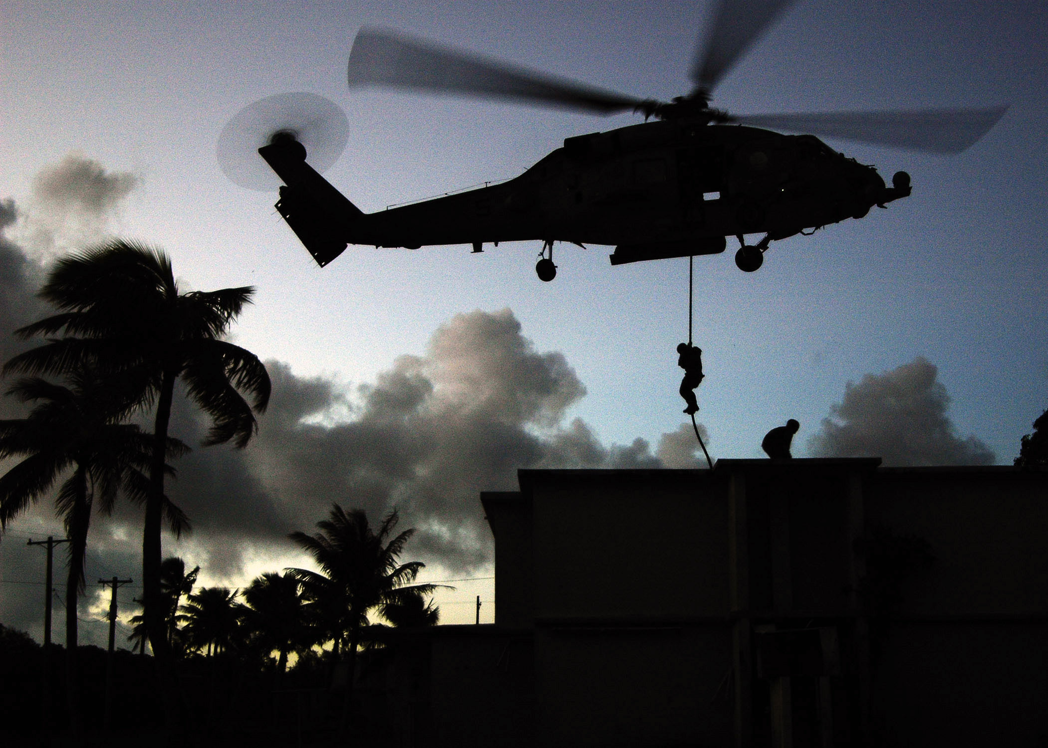 Guam (June 20, 2006) - Navy Special Warfare (NSW) Sailors fast rope onto a rooftop from an HH-60H helicopter assigned to the "Golden Falcons" of Helicopter Anti-Submarine Squadron Two (HS-2), during simulated Strike Warfare missions over the island of Guam. HS-2, part of Carrier Air Wing Two (CVW-2), embarked aboard the Nimitz-class aircraft carrier USS Abraham Lincoln (CVN 72) during Exercise Valiant Shield 2006. Valiant Shield focuses on integrated joint training among U.S. military forces, enabling real-world proficiency in sustaining joint forces and in detecting, locating, tracking and engaging units at sea, in the air, on land and cyberspace in response to a range of mission areas. U.S. Navy photo by Photographer's Mate 3rd Class M. Jeremie Yoder (RELEASED)